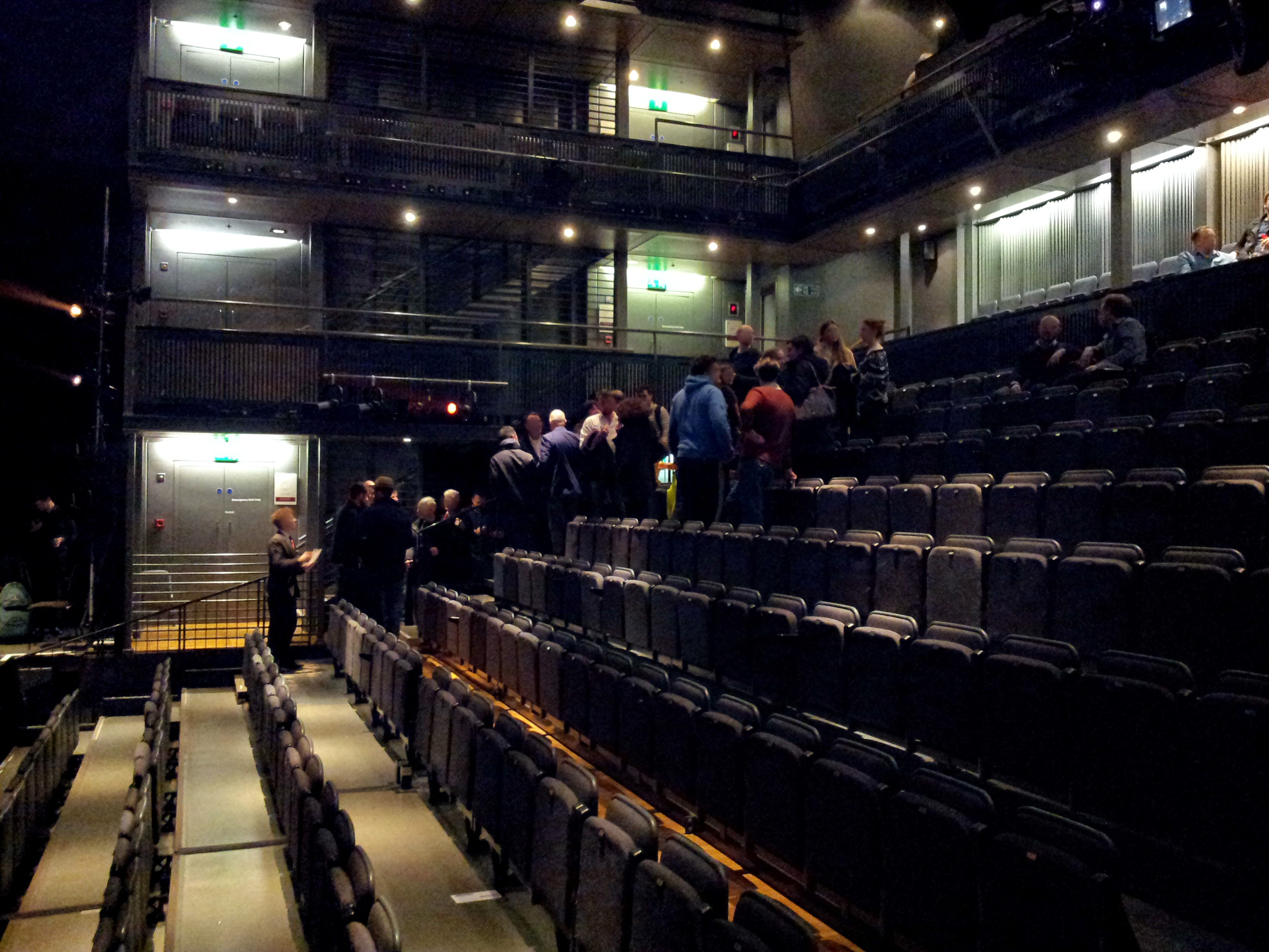 London, Royal Opera House Covent Garden. Interior of the Linbury Studio Theatre.